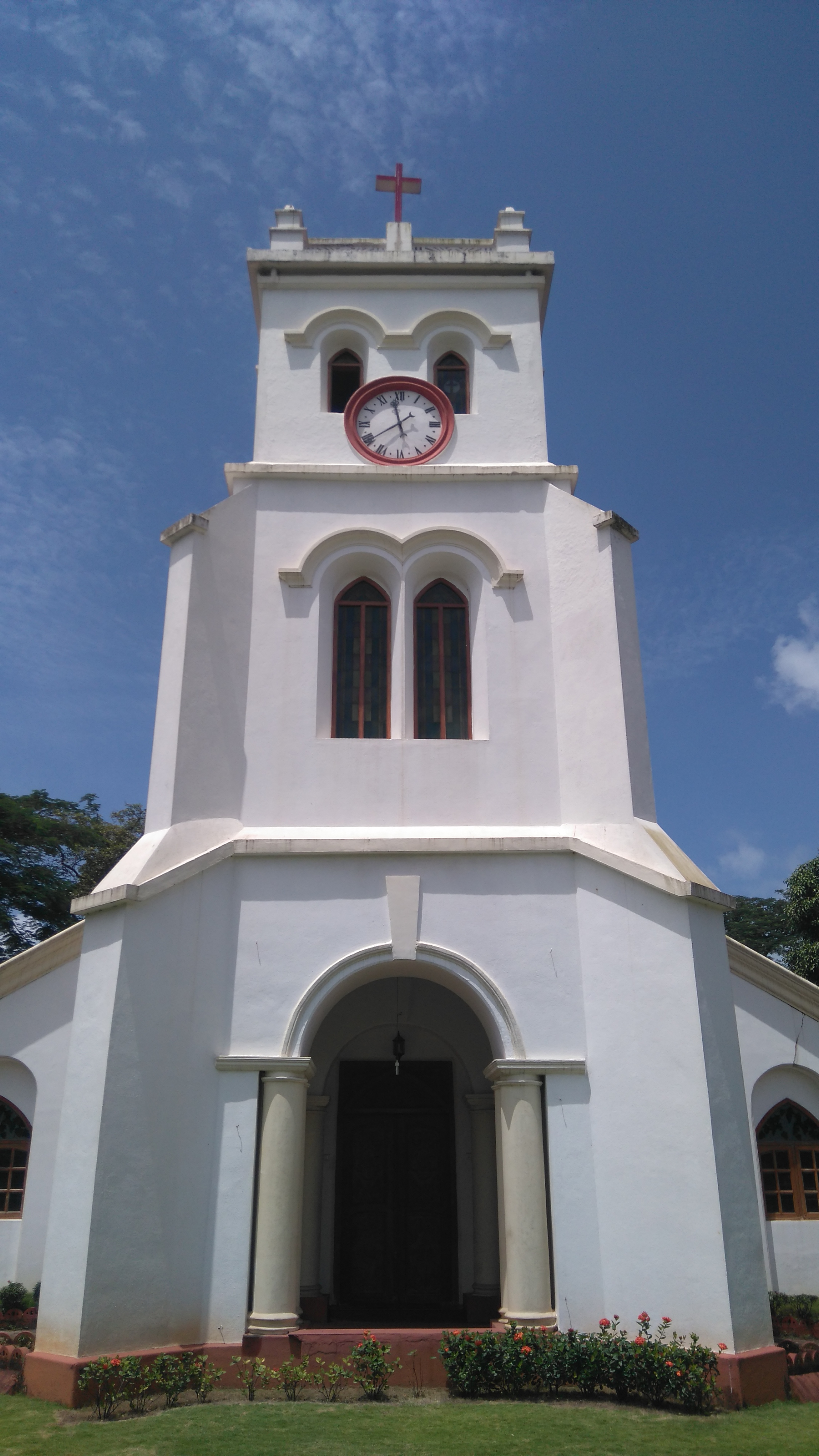 Front view of St. Paul's Church, Mangalore, shot from below on a mobile phone.